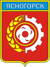 Yasnogorsk (Tula oblast), coat of arms (1987)